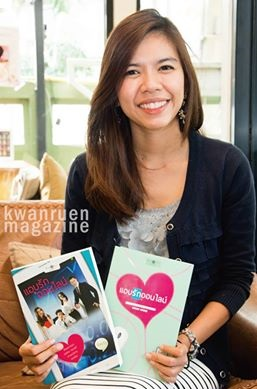 photo1 romkaew